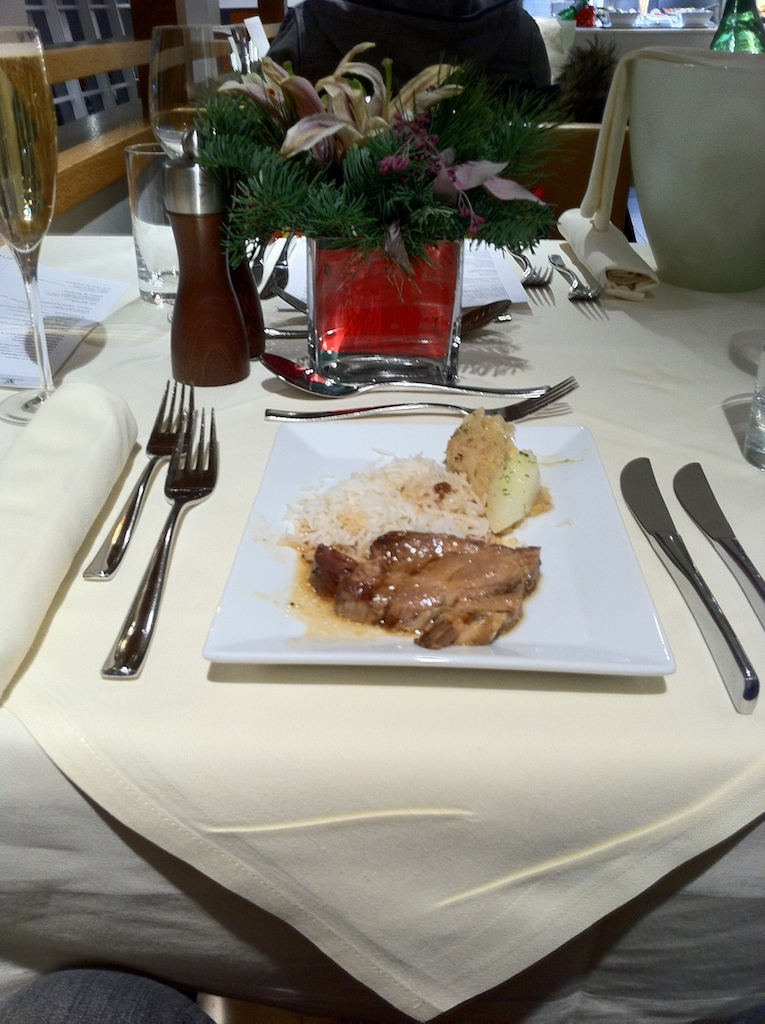 A decent enough dinner from the buffet